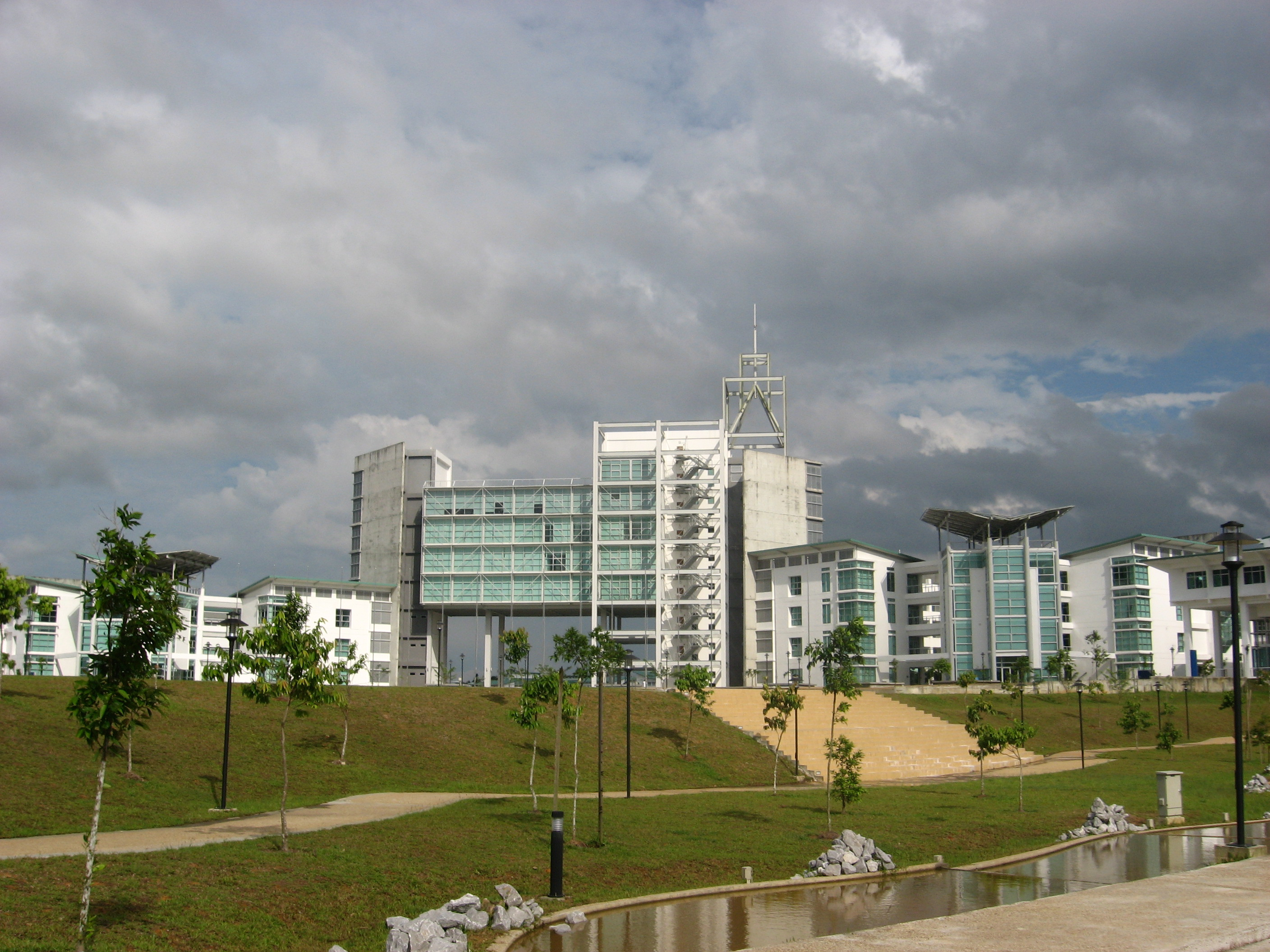 User:TabdullaTabdulla 12:29, 13 January 2007 (UTC) Summary Tabdulla 12:29, 13 January 2007 (UTC)